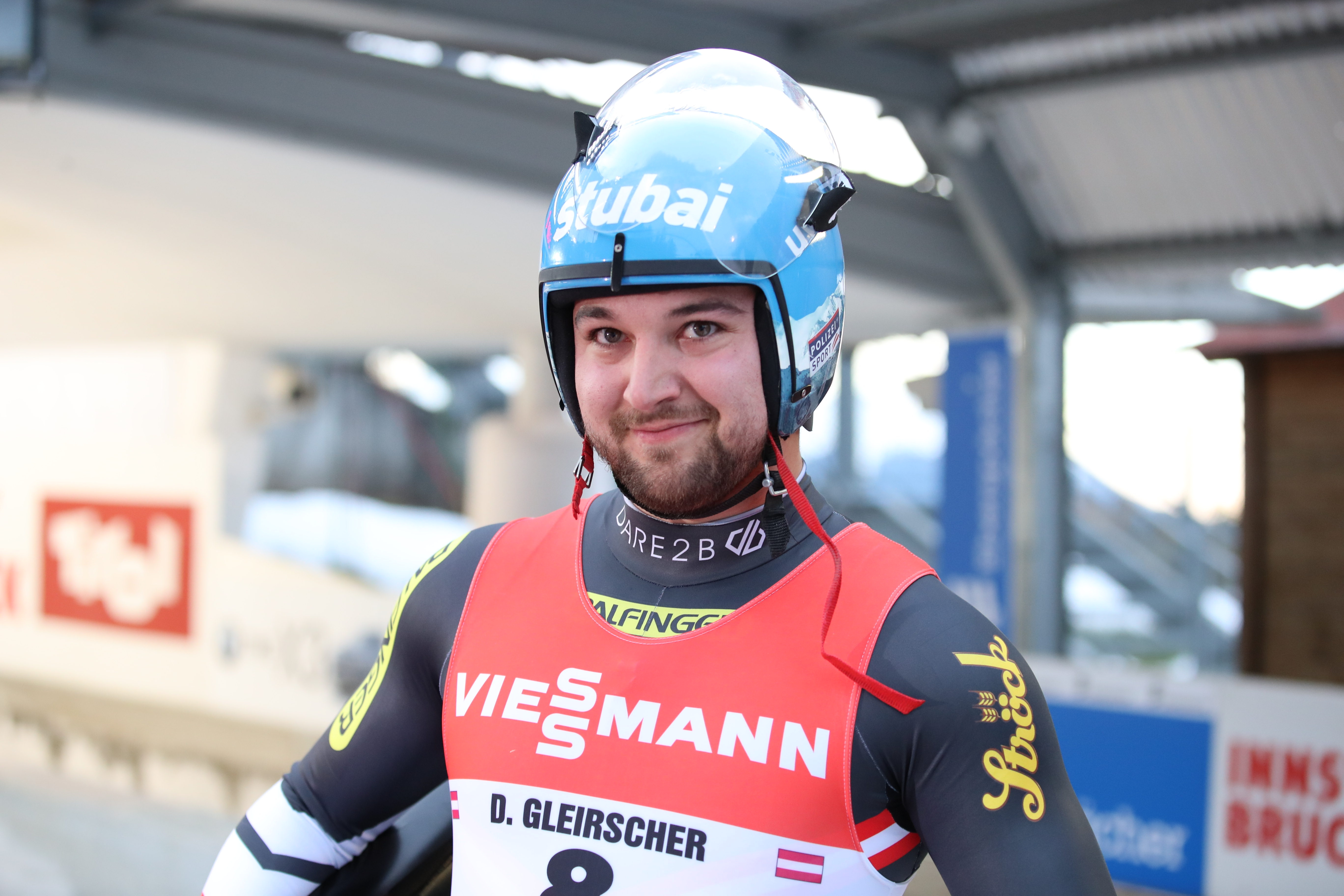 Training of the seeding group at the 2019/20 Luge World Cup in Innsbruck-Igls